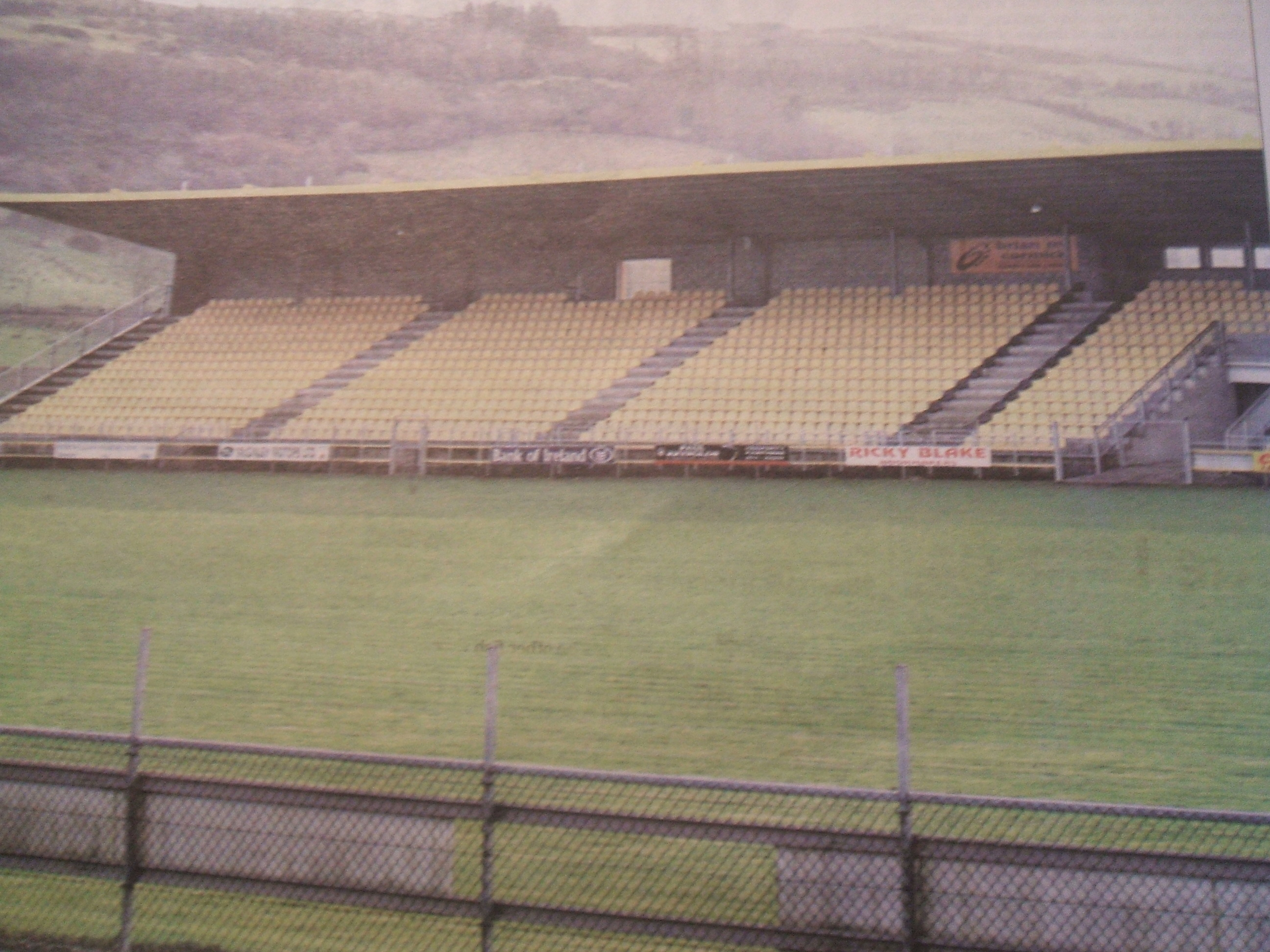 My own photo of O'Donnell Park.